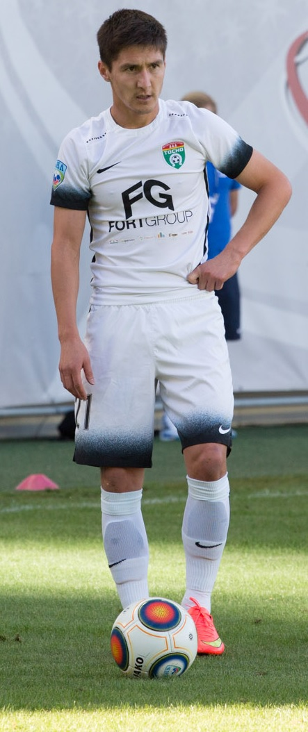 Vagiz Galiullin playing for FC Tosno against FC Dynamo Moscow.